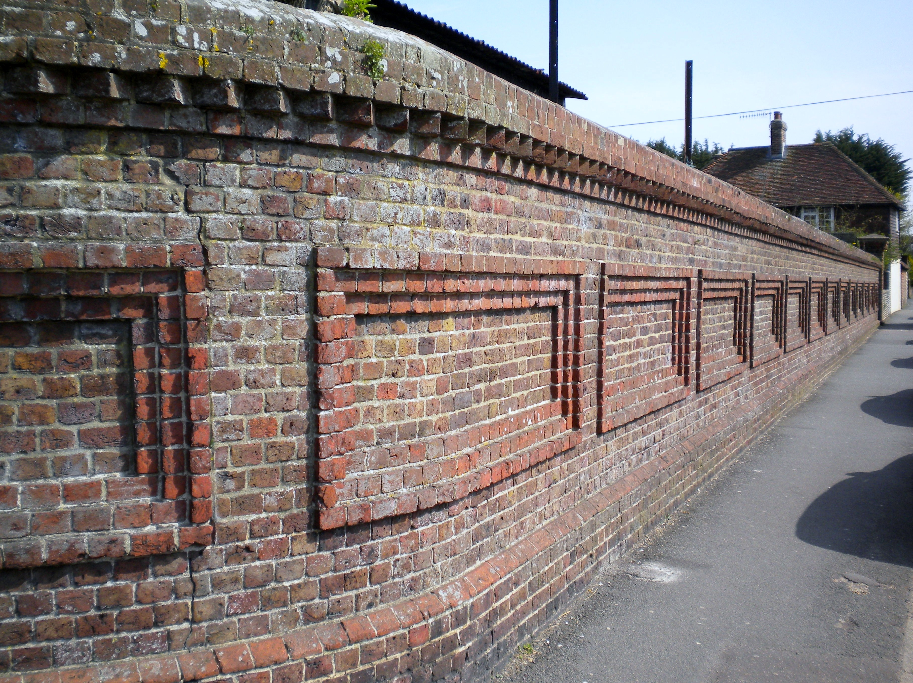 Brick wall of Hailsham cattle market, Hailsham, East Sussex, England.